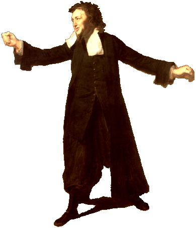 English actor Charles Macklin as Shylock in Shakespeare's The Merchant of Venice at Covent Garden, London, 1767-68, by Johann Zoffany. from [1]